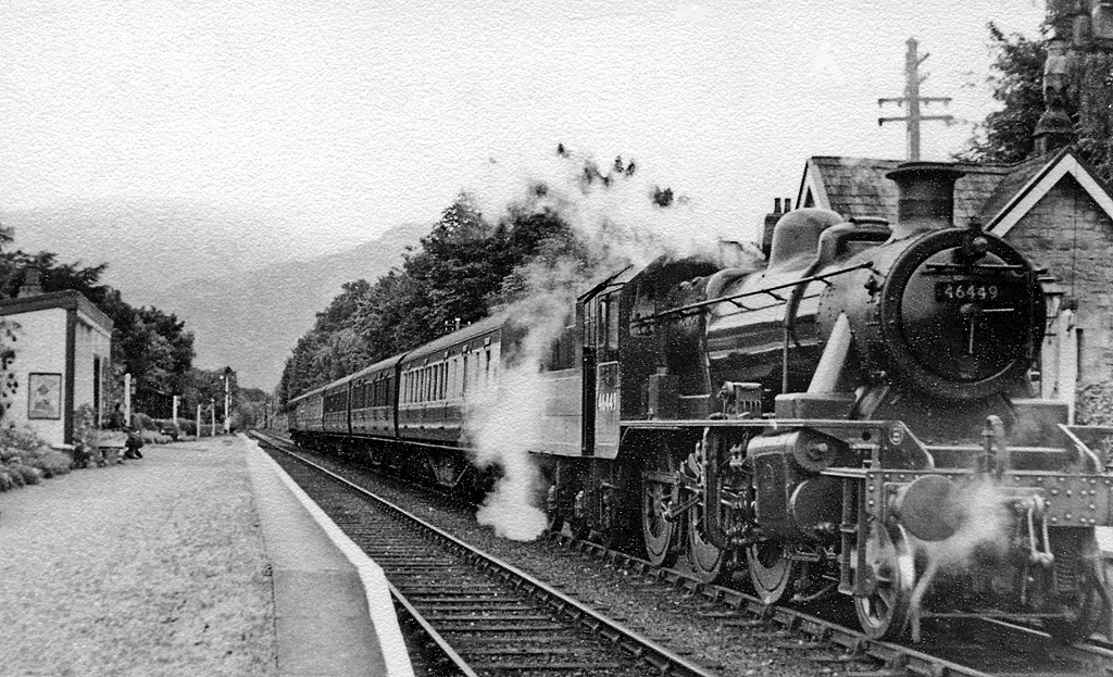 Bassenthwaite Lake Station, with Down train. View eastward, towards Keswick and Penrith; ex-London & North Western, Cockermouth, Keswick & Penrith line. This station was closed on 18/4/66 along with the line Keswick - Cockermouth - Workington; after much objection, Penrith - Keswick was closed eventually on 6/3/72. Then much of the route was converted to a road (A66)! The train, which is headed by LMS Ivatt 2MT 2-6-0 No. 46449, is the Saturday 10.15 Manchester Victoria to Workington. (I have to admit, however, that I was undergoing a Driving (motorcar) Lession on this occasion!)